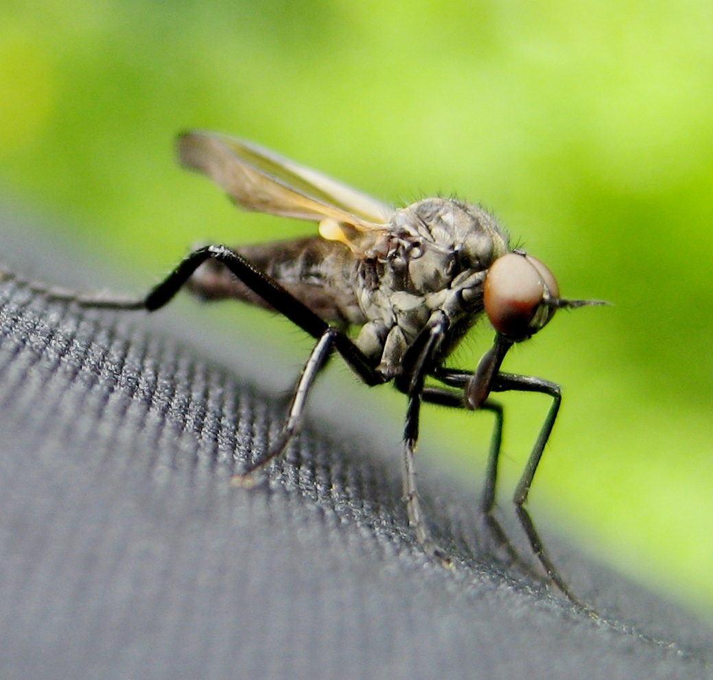 Photo: This is a dancing fly or Empididae, better known as danseflue in norwegian